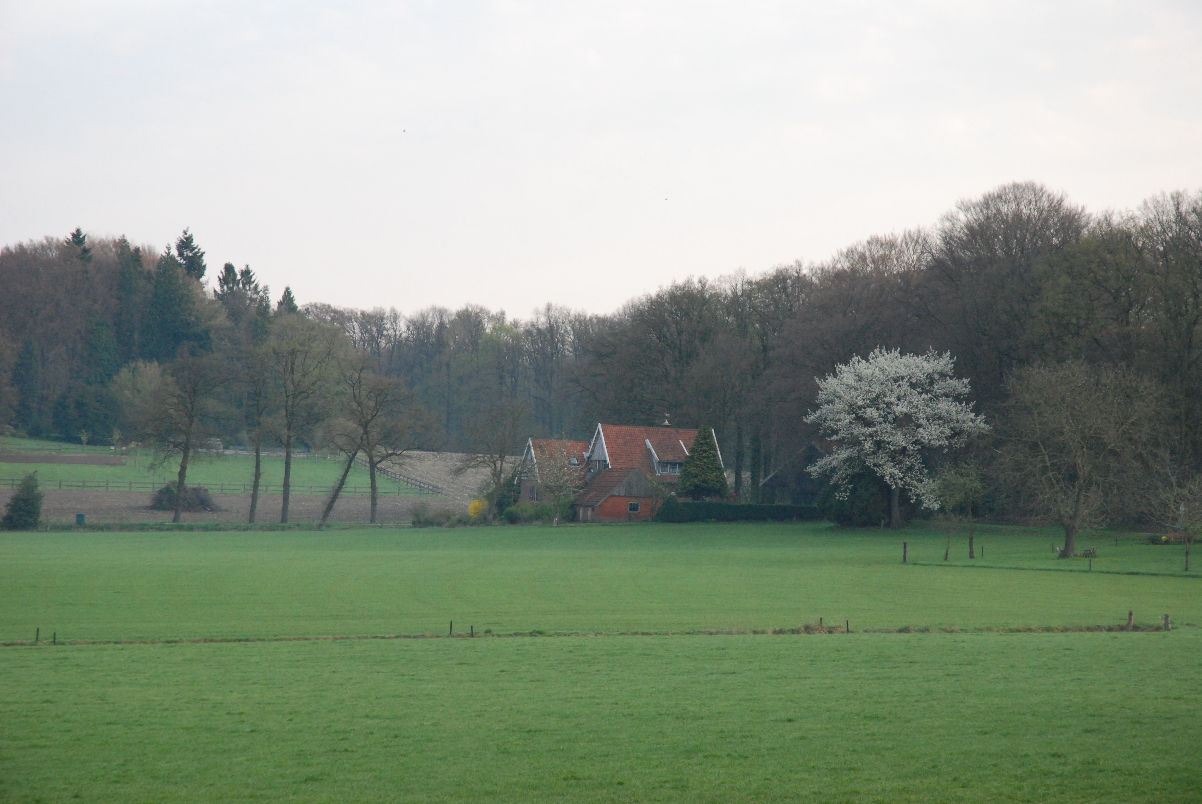 A farm at the Tankenberg.